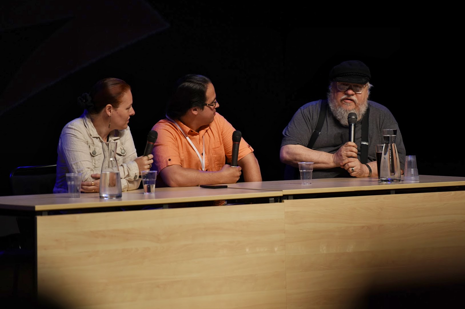 Elio Garcia and Linda Antonsson, authors of The World of Ice and Fire, together with George R.R. Martin at Archipelacon.